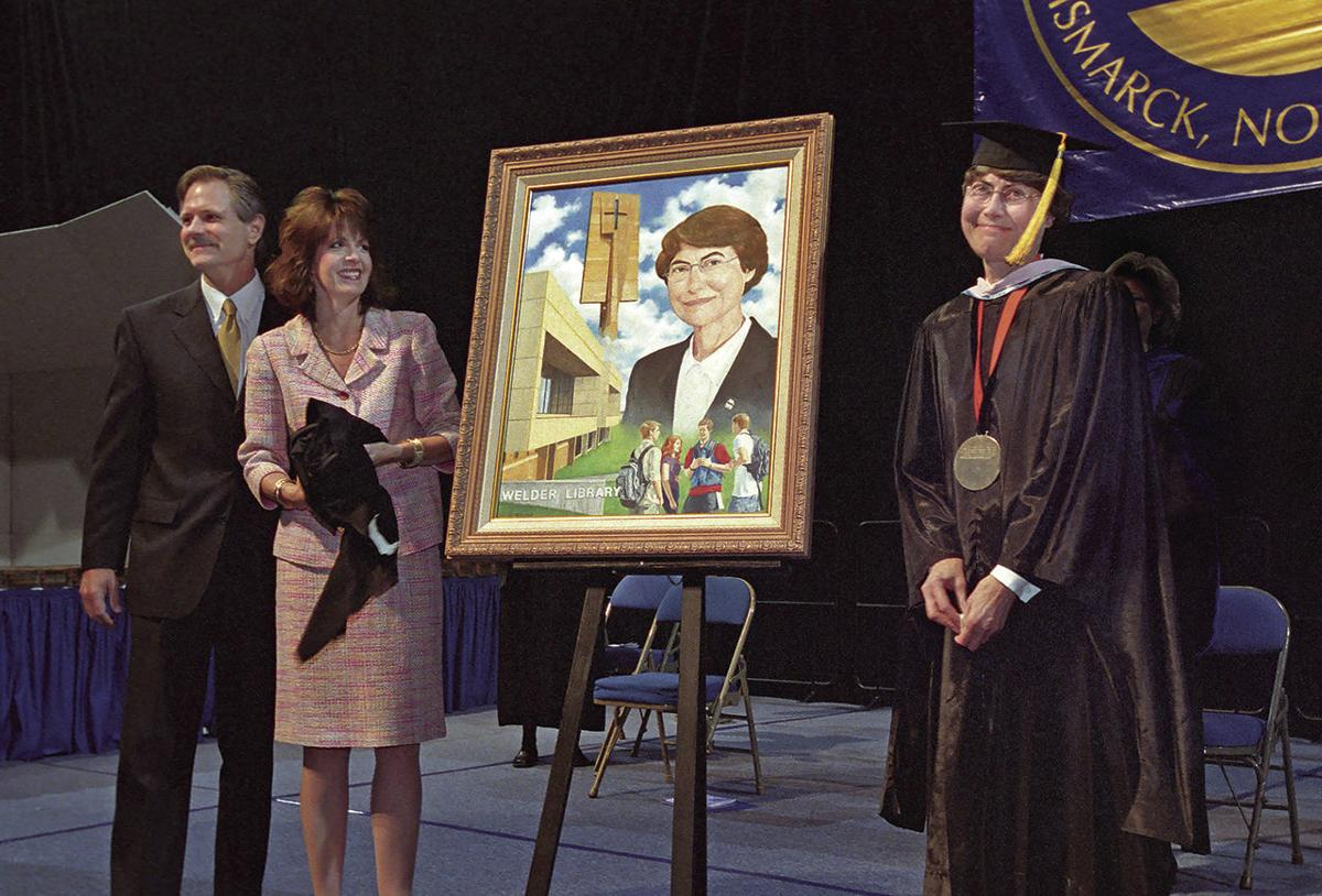 Sister Thomas Welder (right), President of the University of Mary, was truly humbled as she receives the Theodore Roosevelt Rough Rider Award from Gov. John and First Lady Mikey Hoeven during the commencement services for the University of Mary. The award is presented to individuals who have achieved national recognition, reflecting credit and honor upon North Dakota and its citizens.